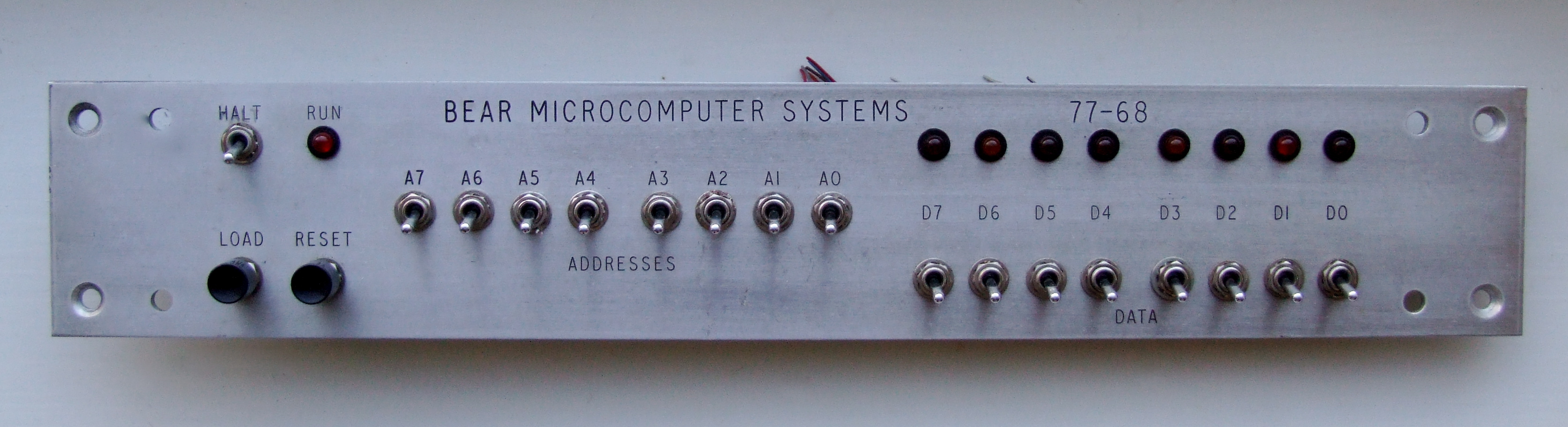 The front panel from a Bear Microcomputer Systems 77-68 microcomputer, a home computer kit produced in the UK in 1977.